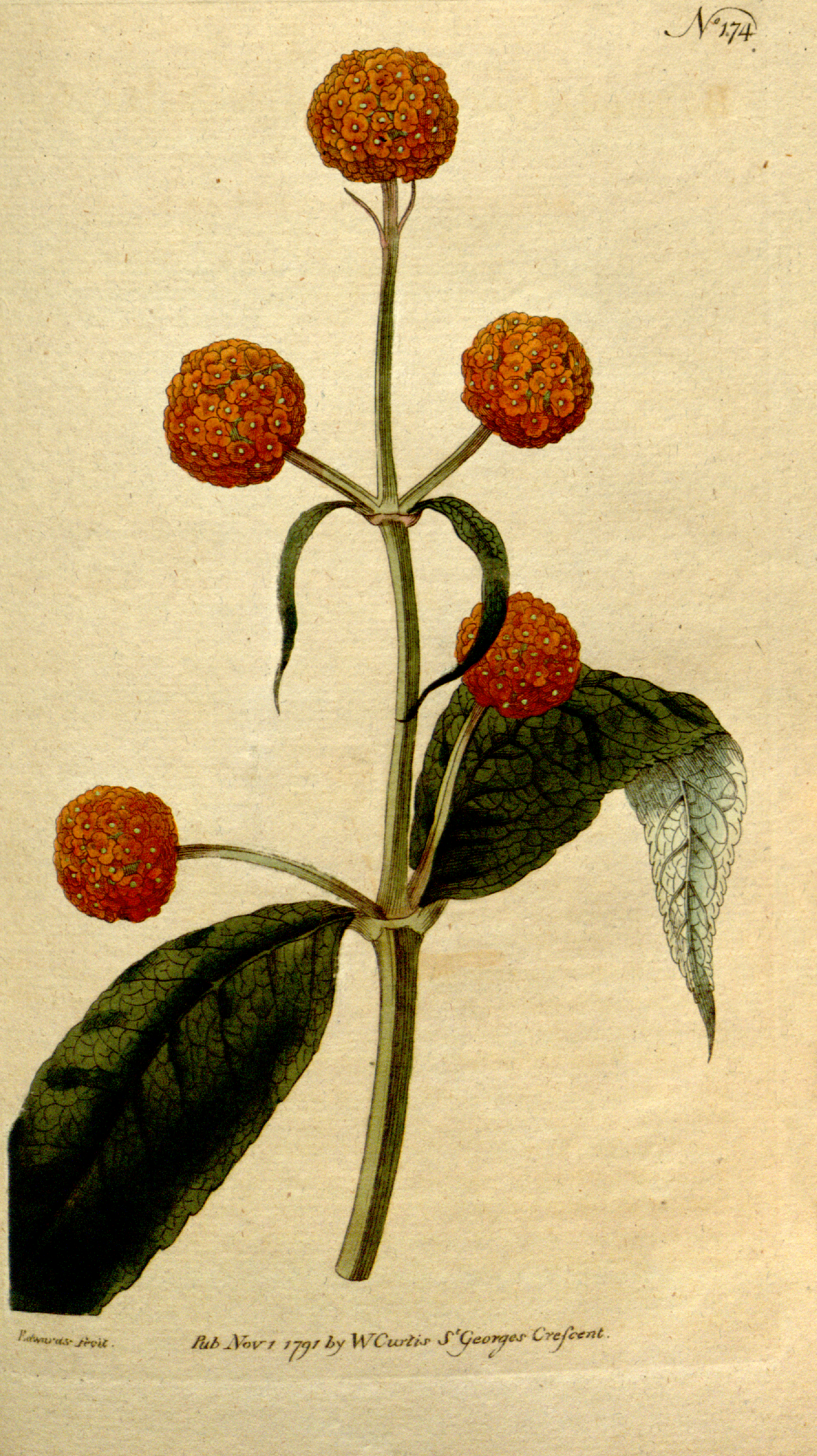 This is a plate from The Botanical Magazine, Volume 5.